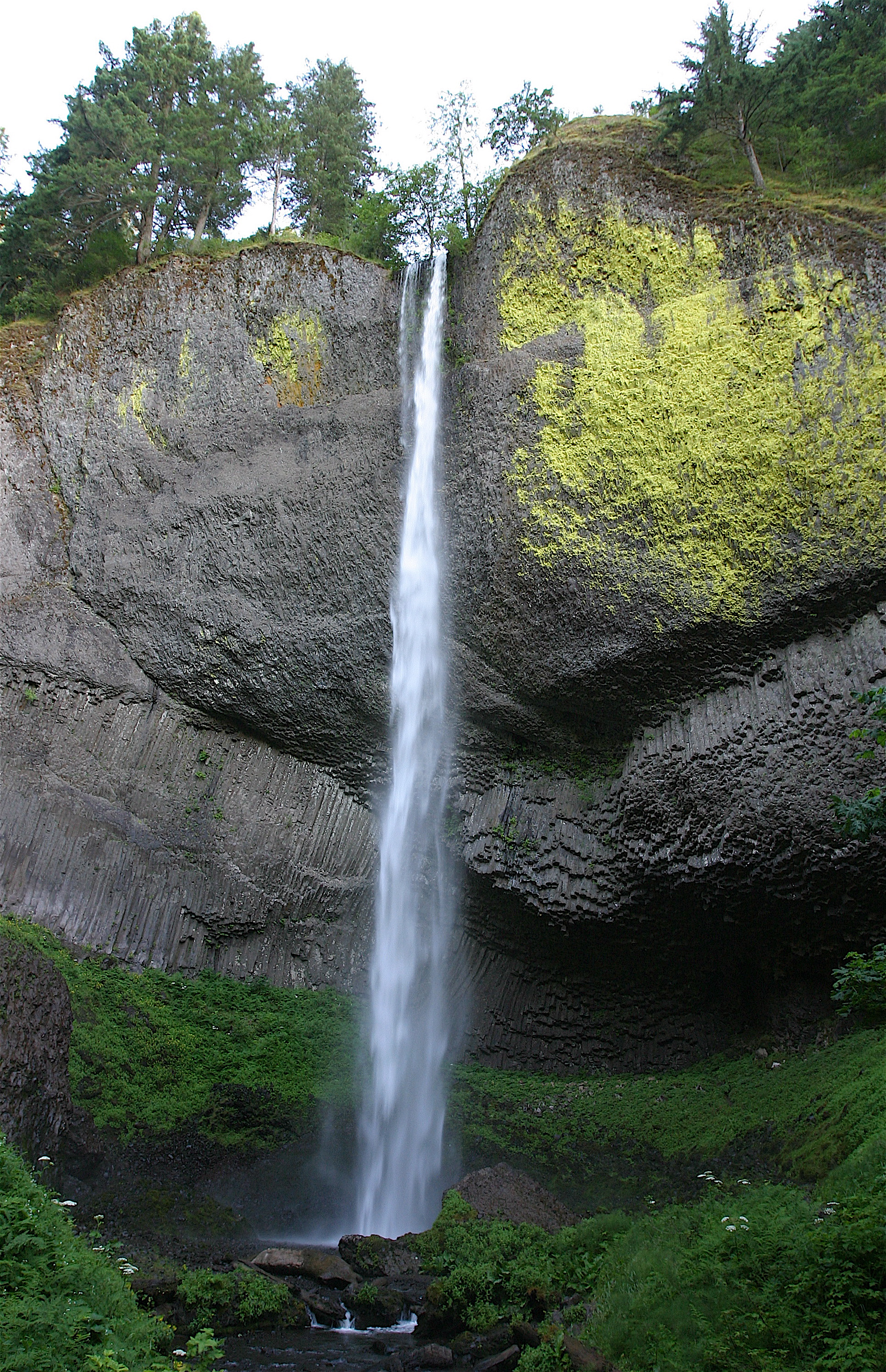 Latourell Falls near Portland, Oregon.